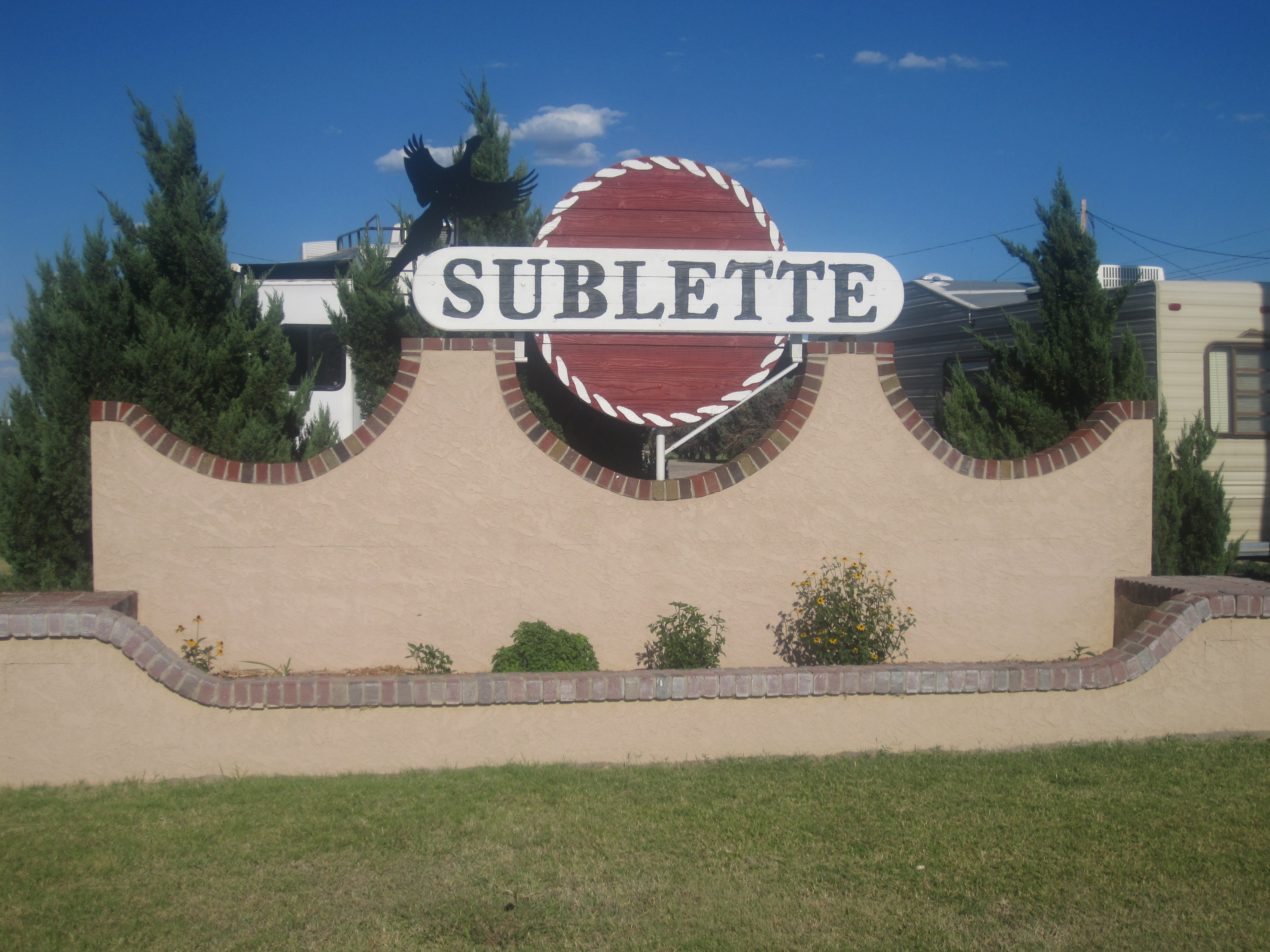 I took photo with Canon camera in Sublette, KS.